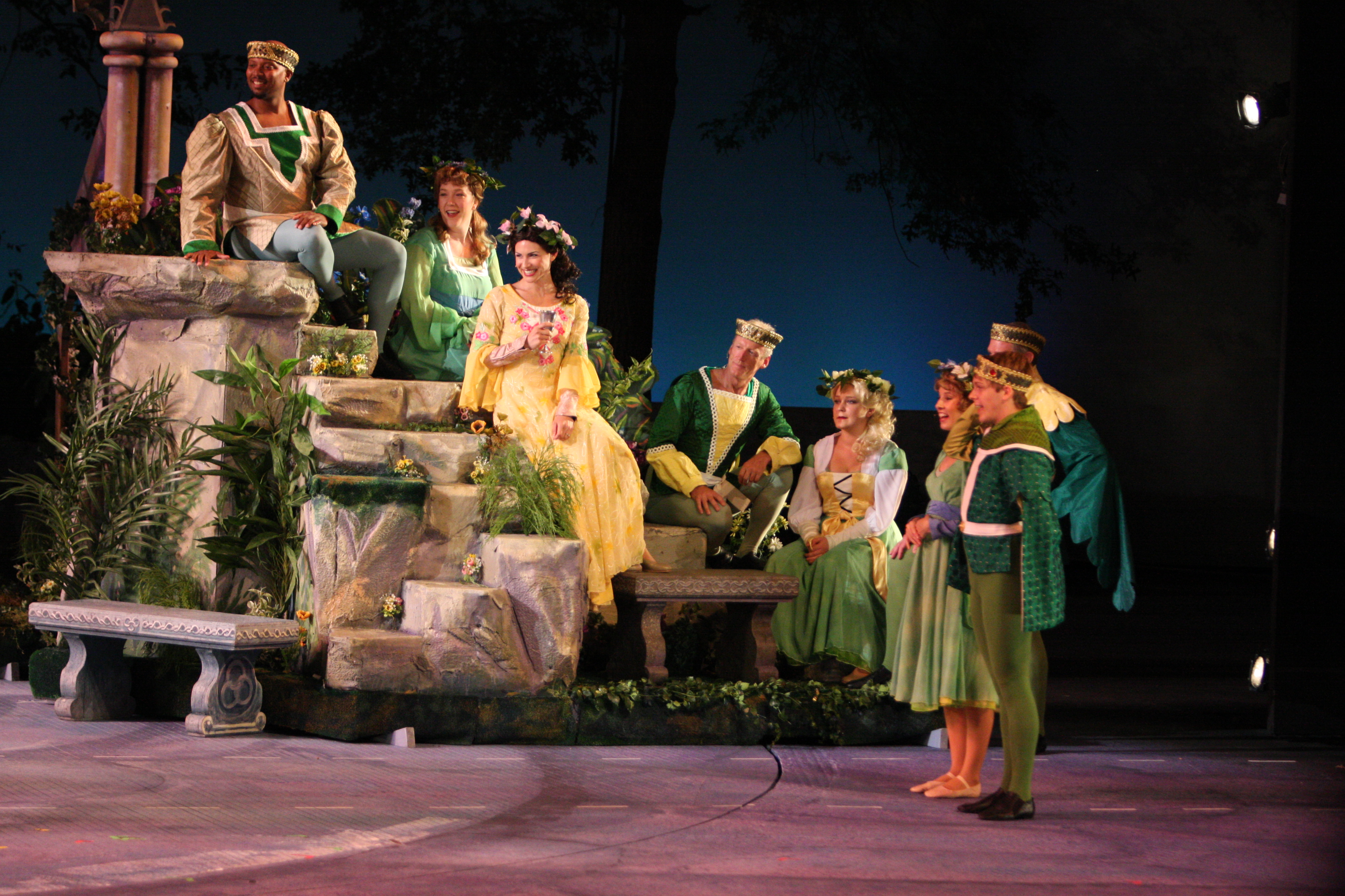 Company and Jenny Powers Camelot 2009